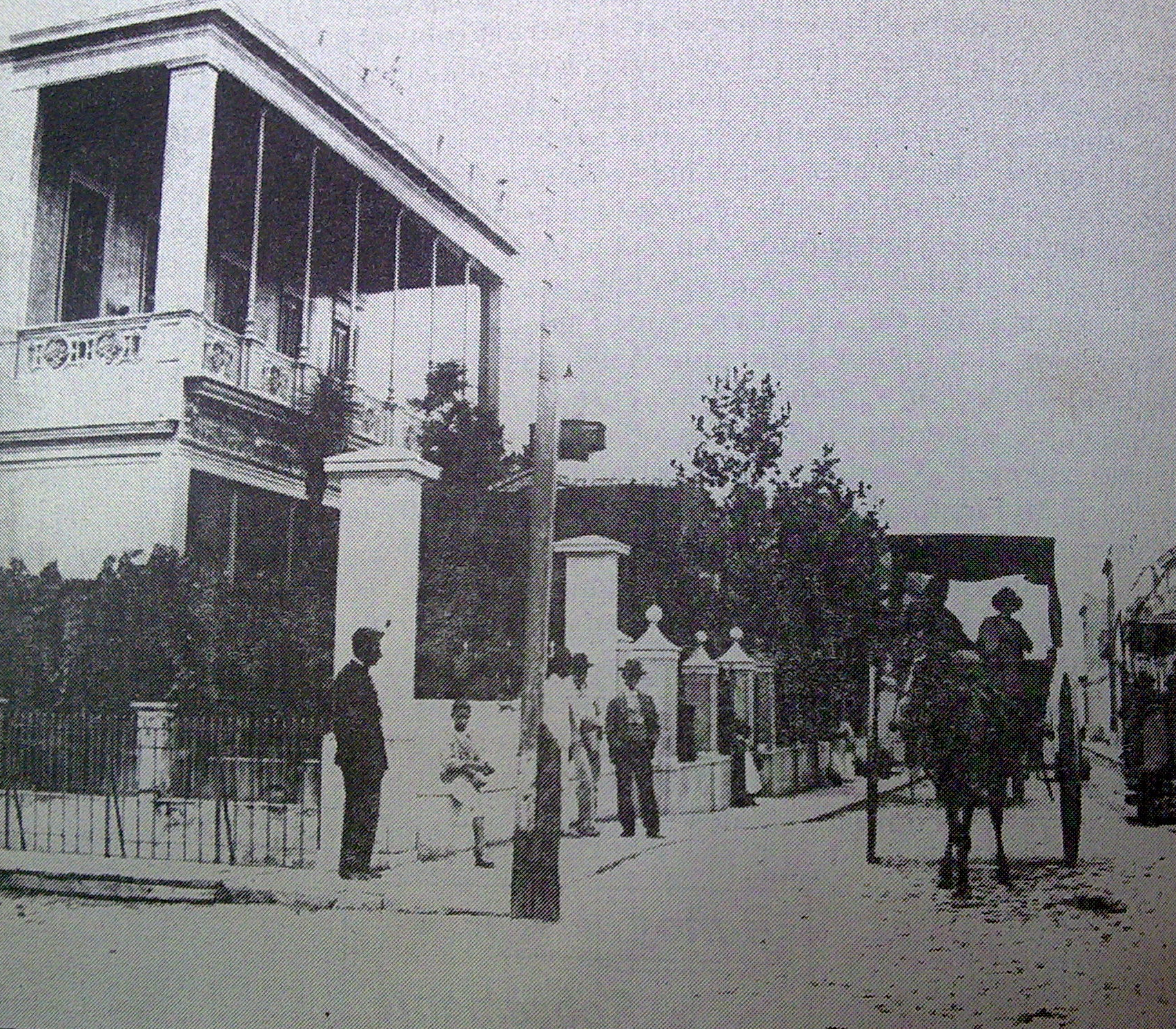 Colon avenue in Cordoba, Argentina, around 1900.